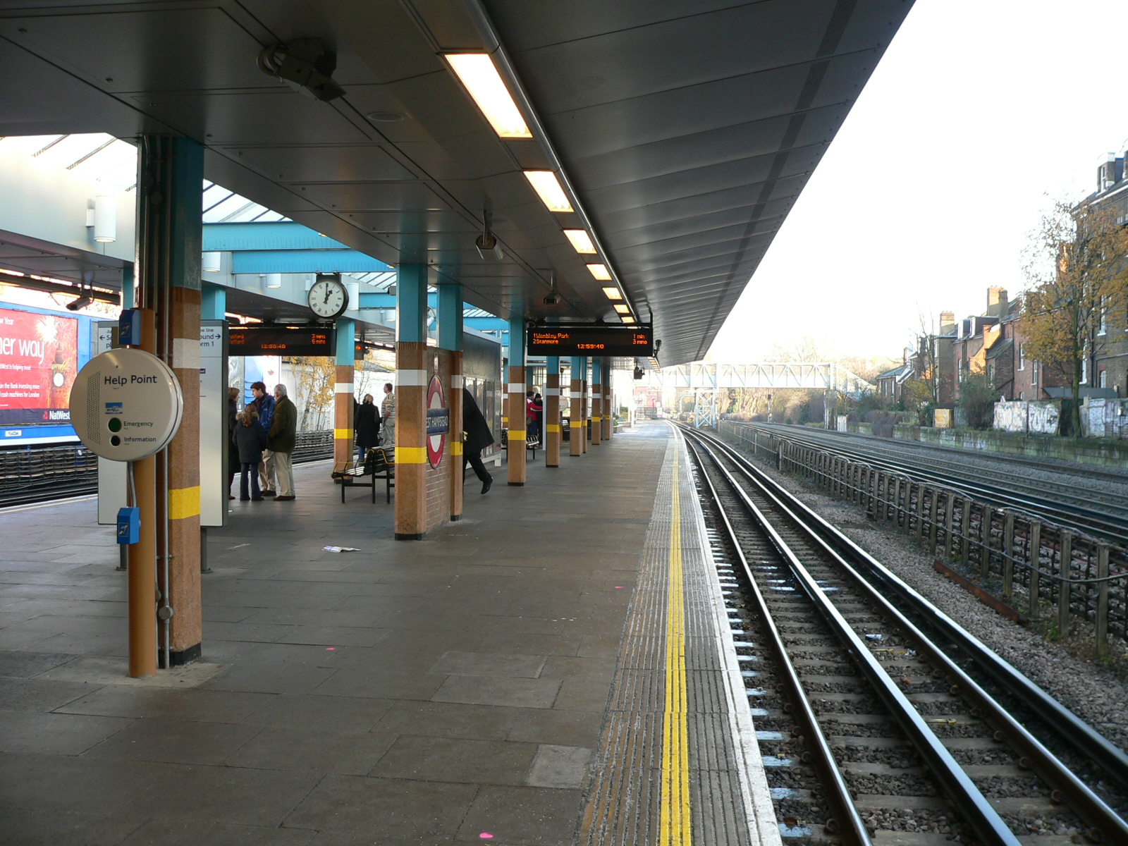 The northbound Jubilee Line platform at West Hampstead tube station. The lines on the other side of the short fence are the northbound Metropolitan Line track and the lines to and from Marylebone station.